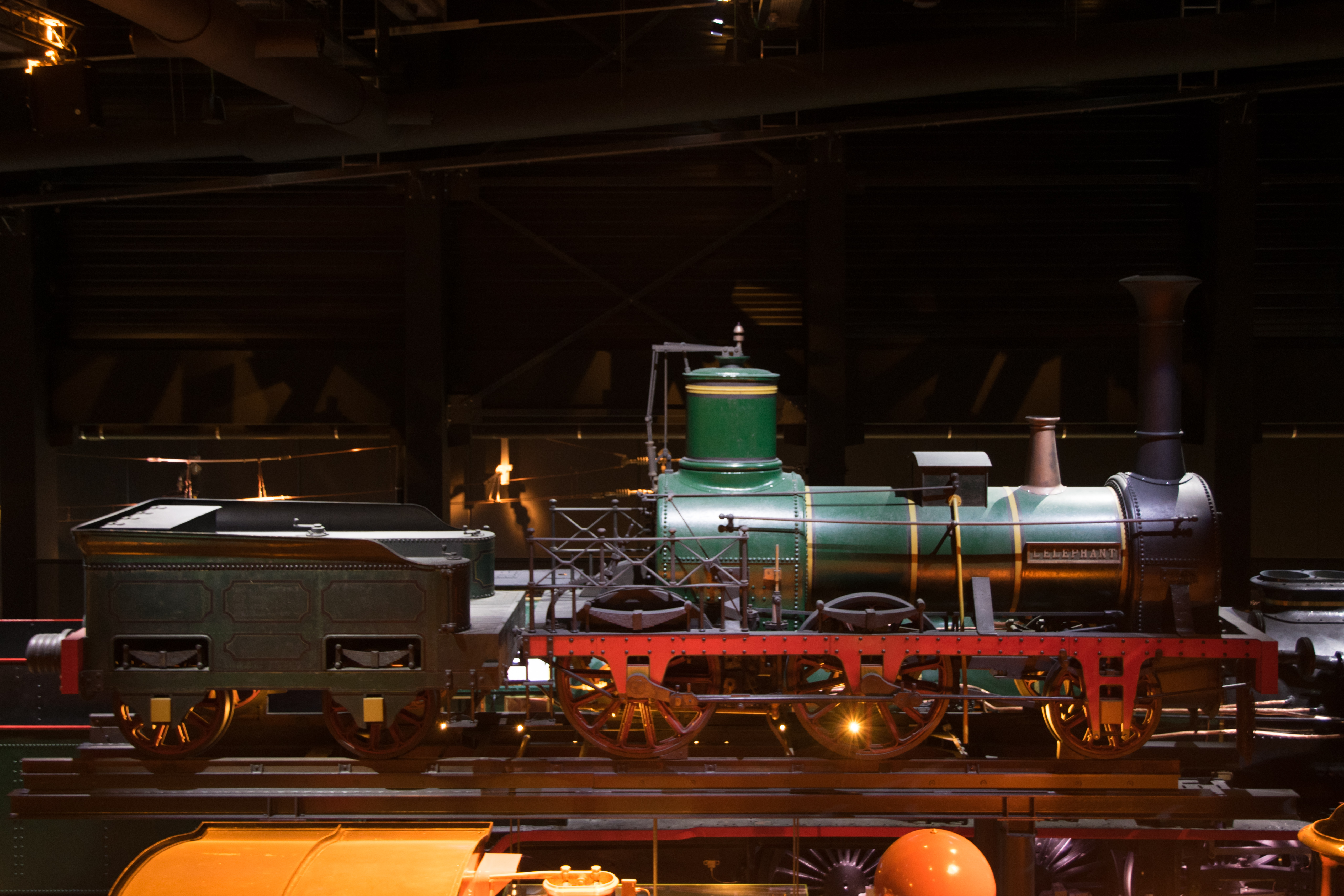 L'Éléphant in Train World Brussel